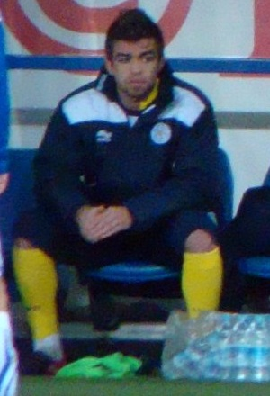 22/02/11 Cardiff V Leicester, Championship, Cardiff City Stadium, Cardiff, Wales